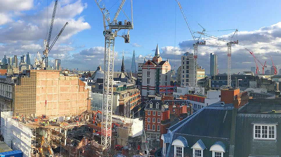 LSE's recent redevelopment projects